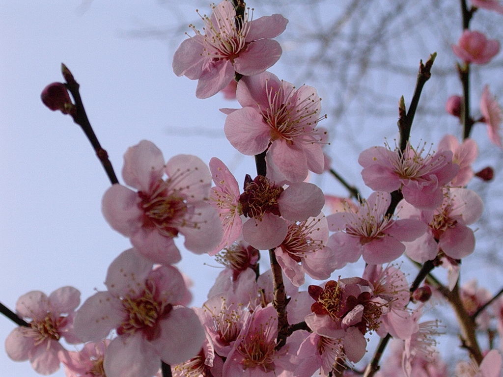 Unidentified Prunus